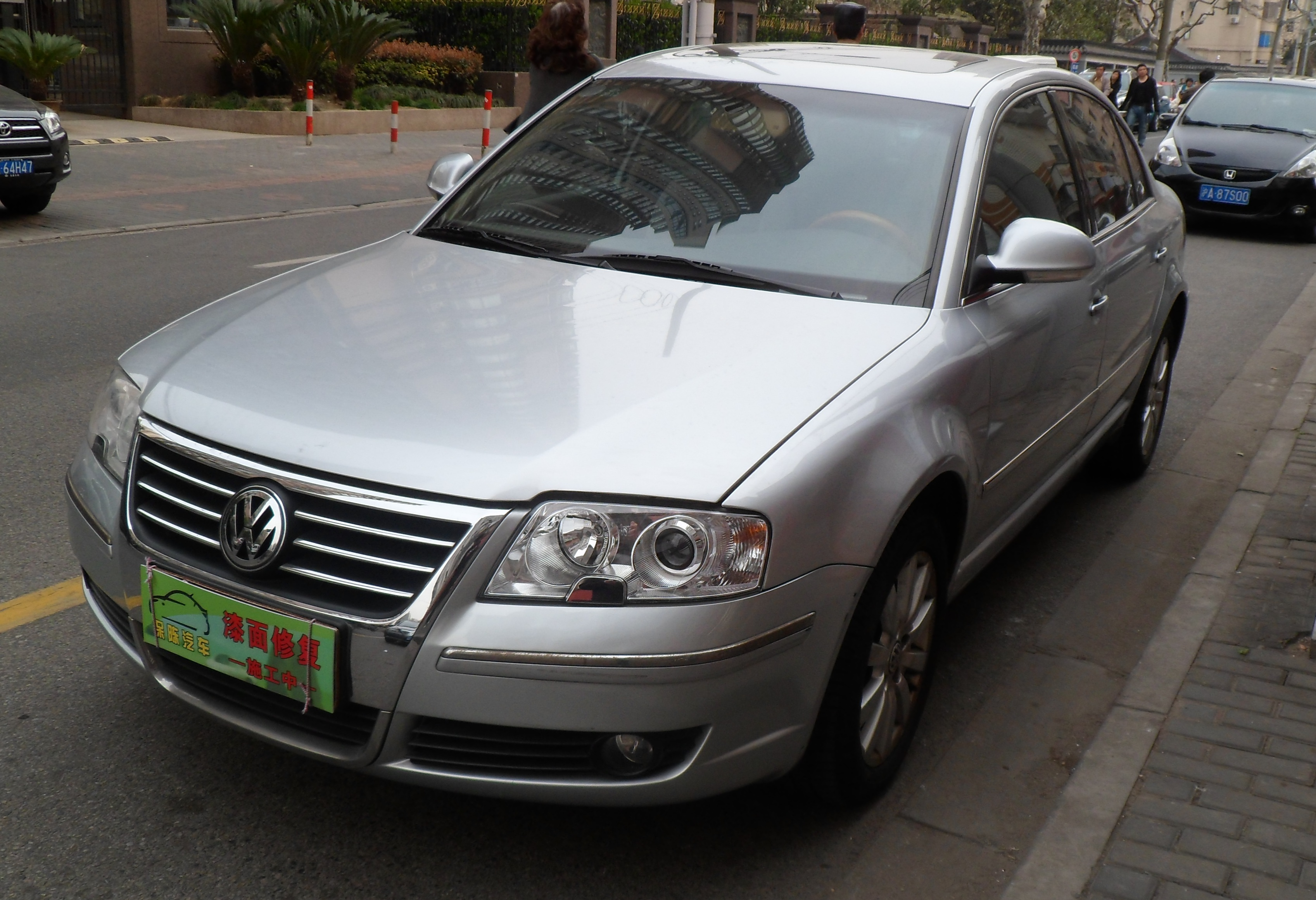 Volkswagen Passat Lingyu photographed in Shanghai, China.